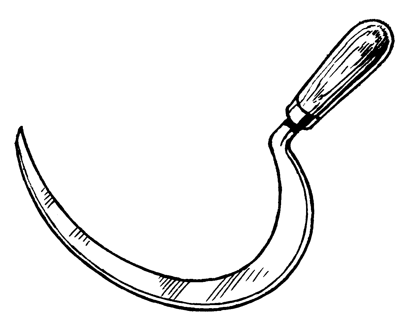 Line art drawing of a sickle